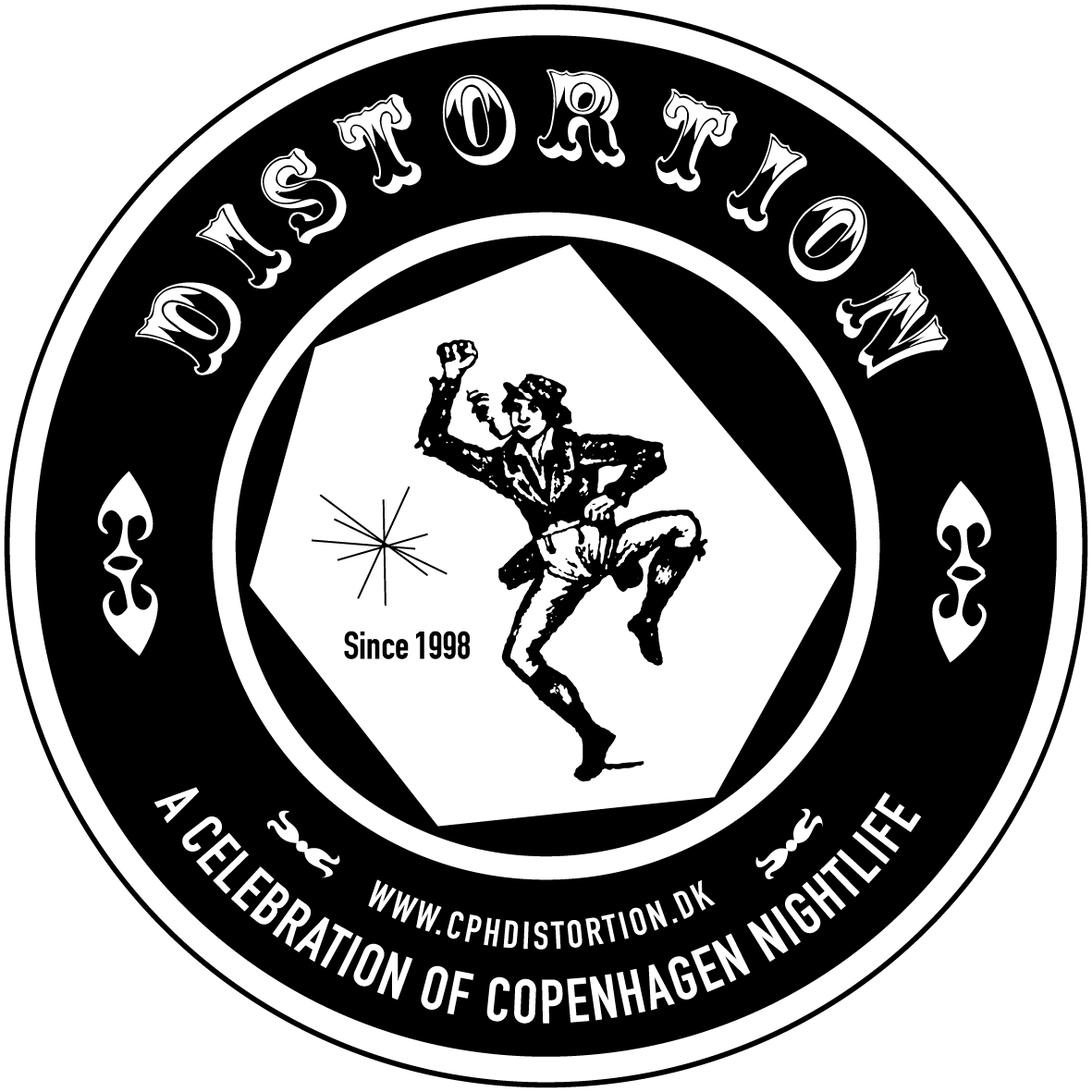 Official Distortion Logo